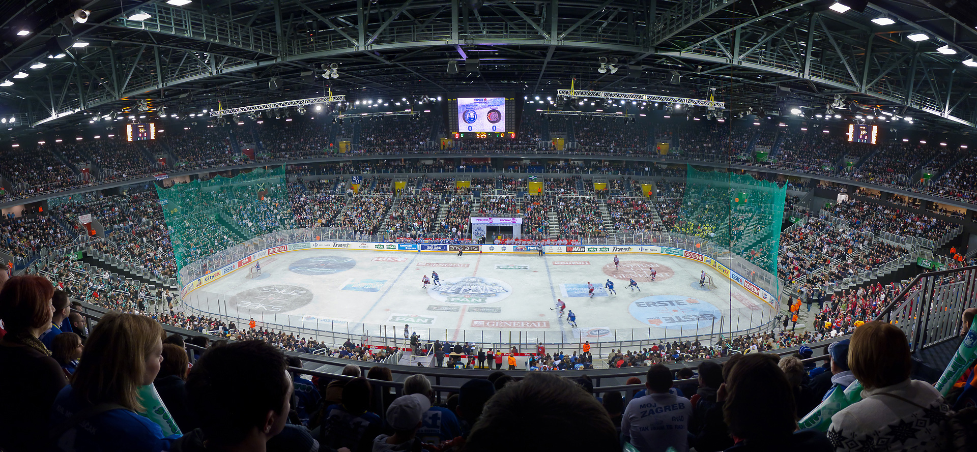 View from the east stand during the Medvescak Zagreb game